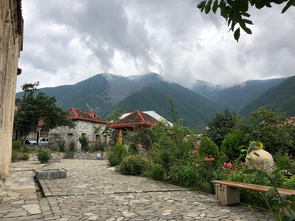 Kish village surrounded by mountains